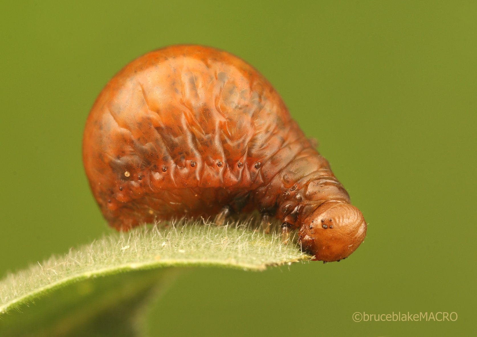 Lema sp., Chrysomelidae - Amanzimtoti, KwaZulu-Natal "This little larva is in the developmental phase - Its sole purpose is to eat, poop and become an adult. To protect itself on this journey it covers itself with its own excrement."